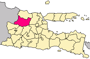 Location of Bojonegoro county in East Java province, Indonesia